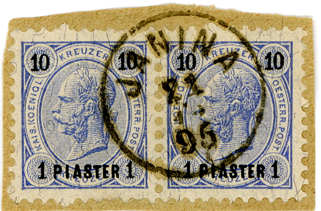 Austrian KK stamp, overprint 1 piaster on 10 kr ultramarine, for use in the Ottoman Empire, issue 1890, cancelled in 1895 at Janina (Greece). Michel N°23.